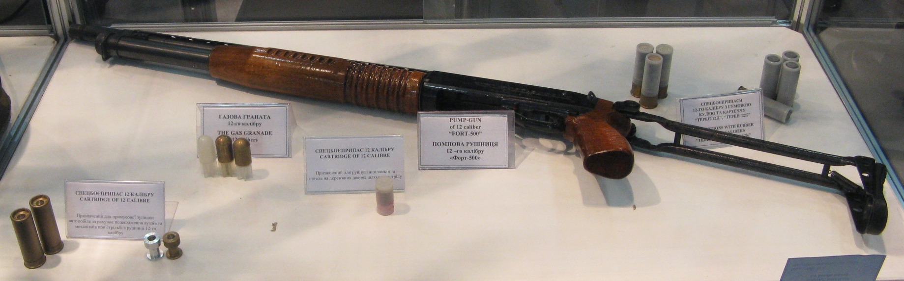 Fort-500 single-barrelled smooth-bore gun production Association "Fort"